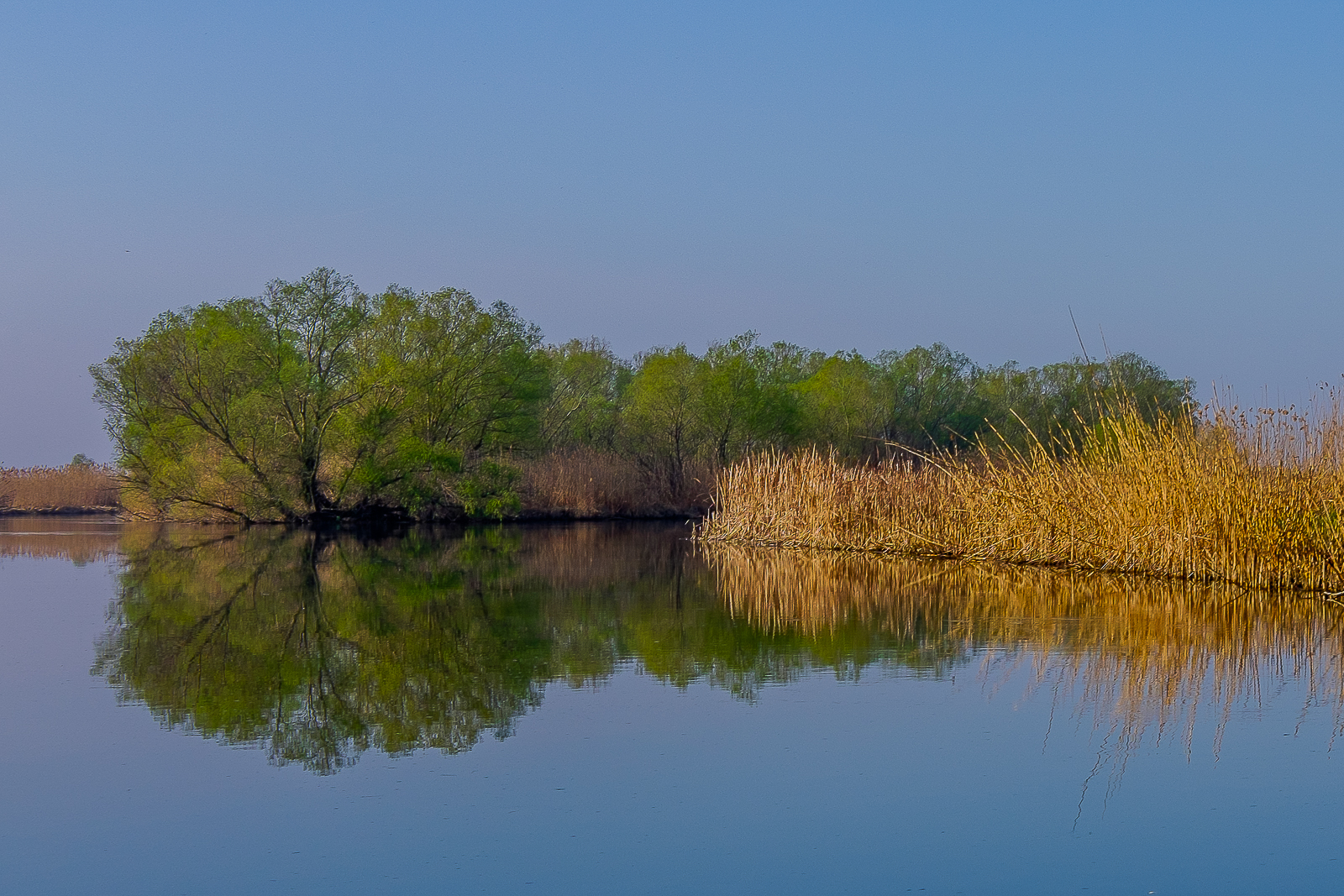 This is an image of the Biosphere Reserve or a Geopark: Astrakhan Nature Reserve